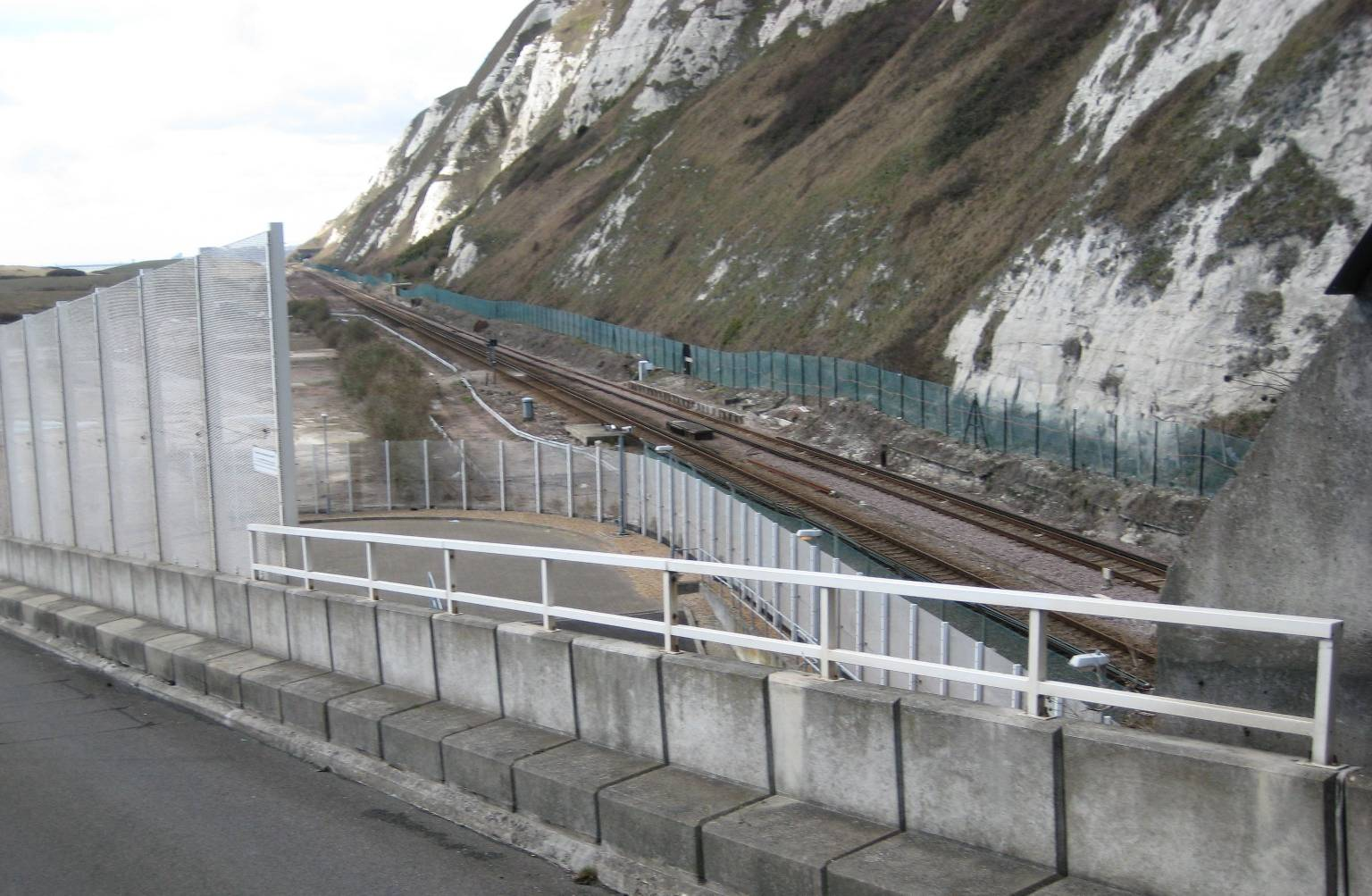 Railway at Shakespeare Cliff at Samphire Hoe.